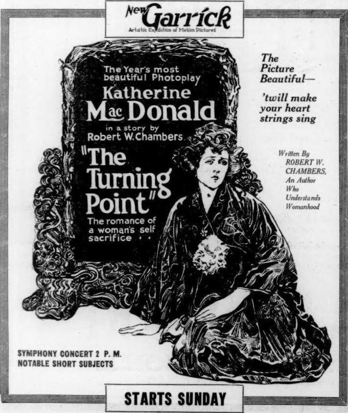 Newspaper advertisement for the American drama film The Turning Point (1920) with Katherine MacDonald, on page 7 of the March 6, 1920 Duluth Herald.